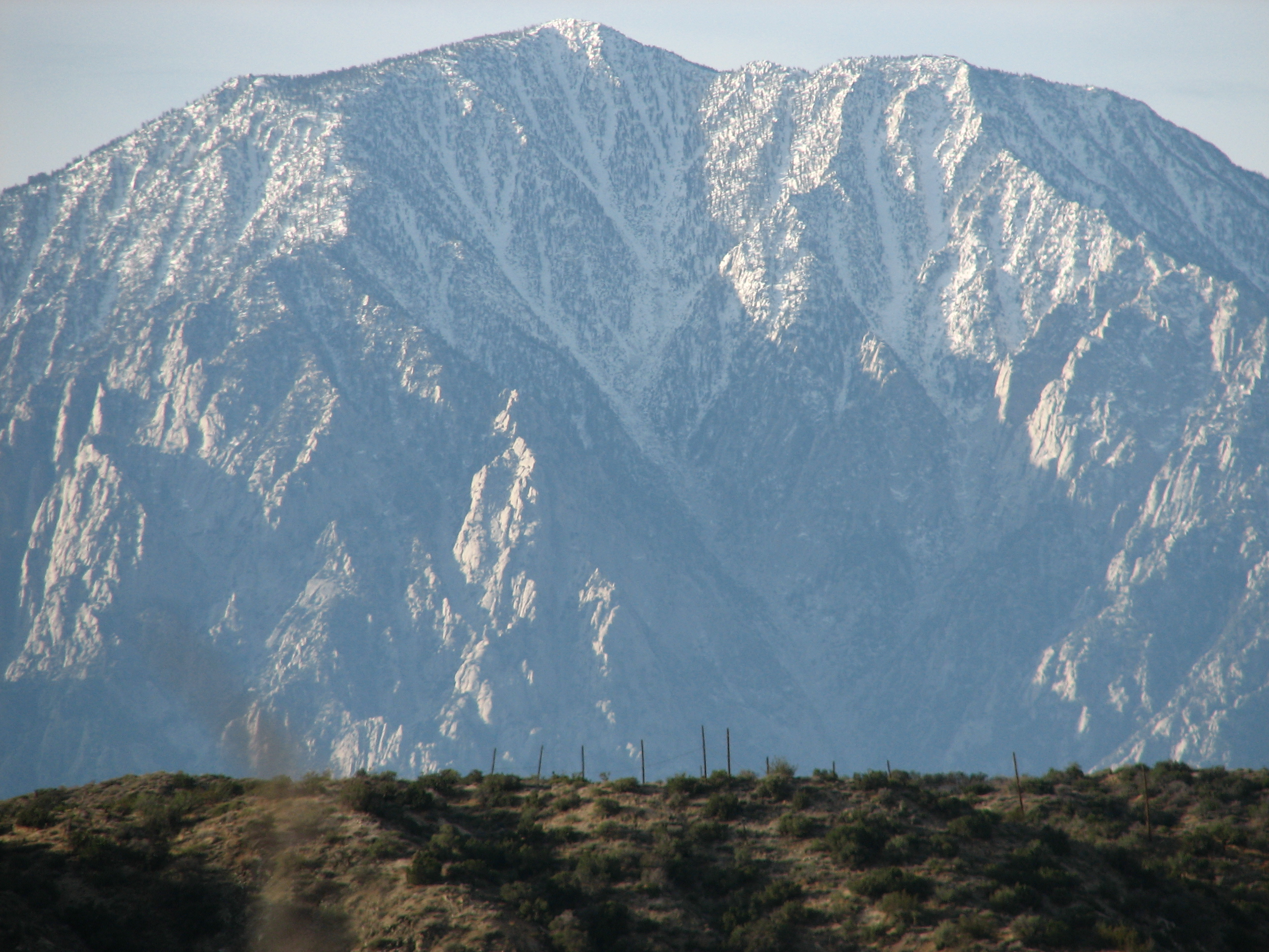 Mount San Jacinto — seen from the north. In the San Jacinto Mountains, Riverside County, California.